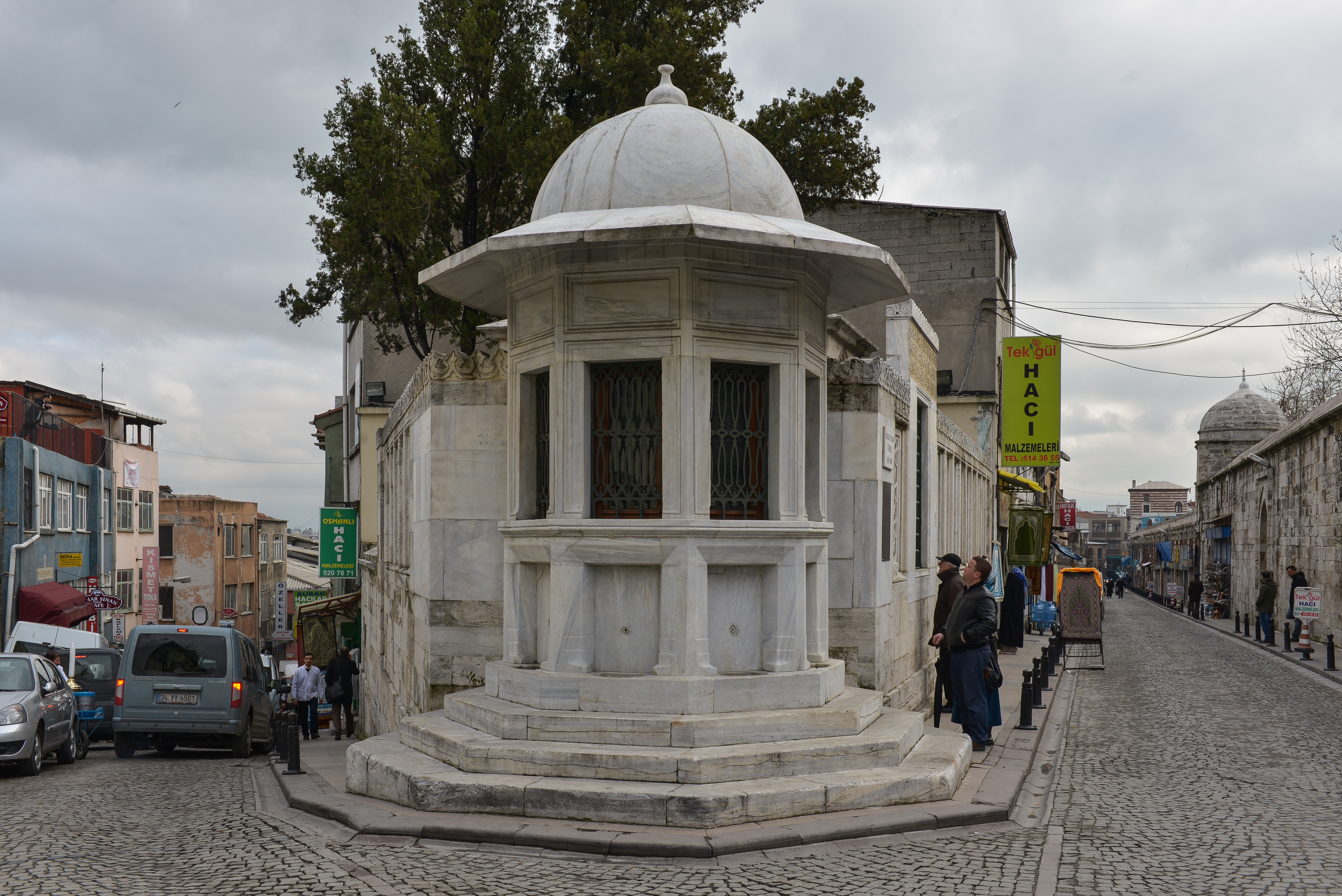 The octagonal water dispenser next to the tomb of Mimar Sinan, outside Süleymaniye Mosque in Istanbul, Turkey.